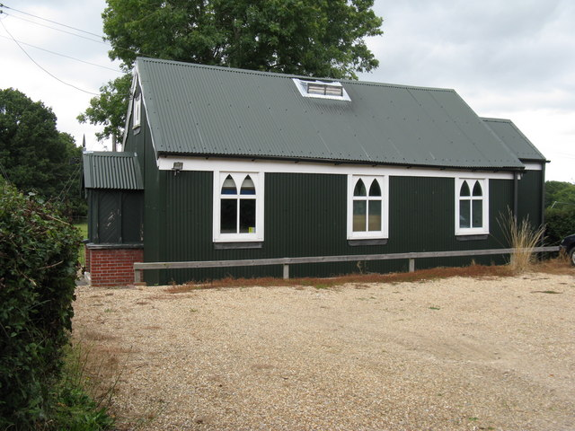 Former Chapel at Brook Street, West Sussex